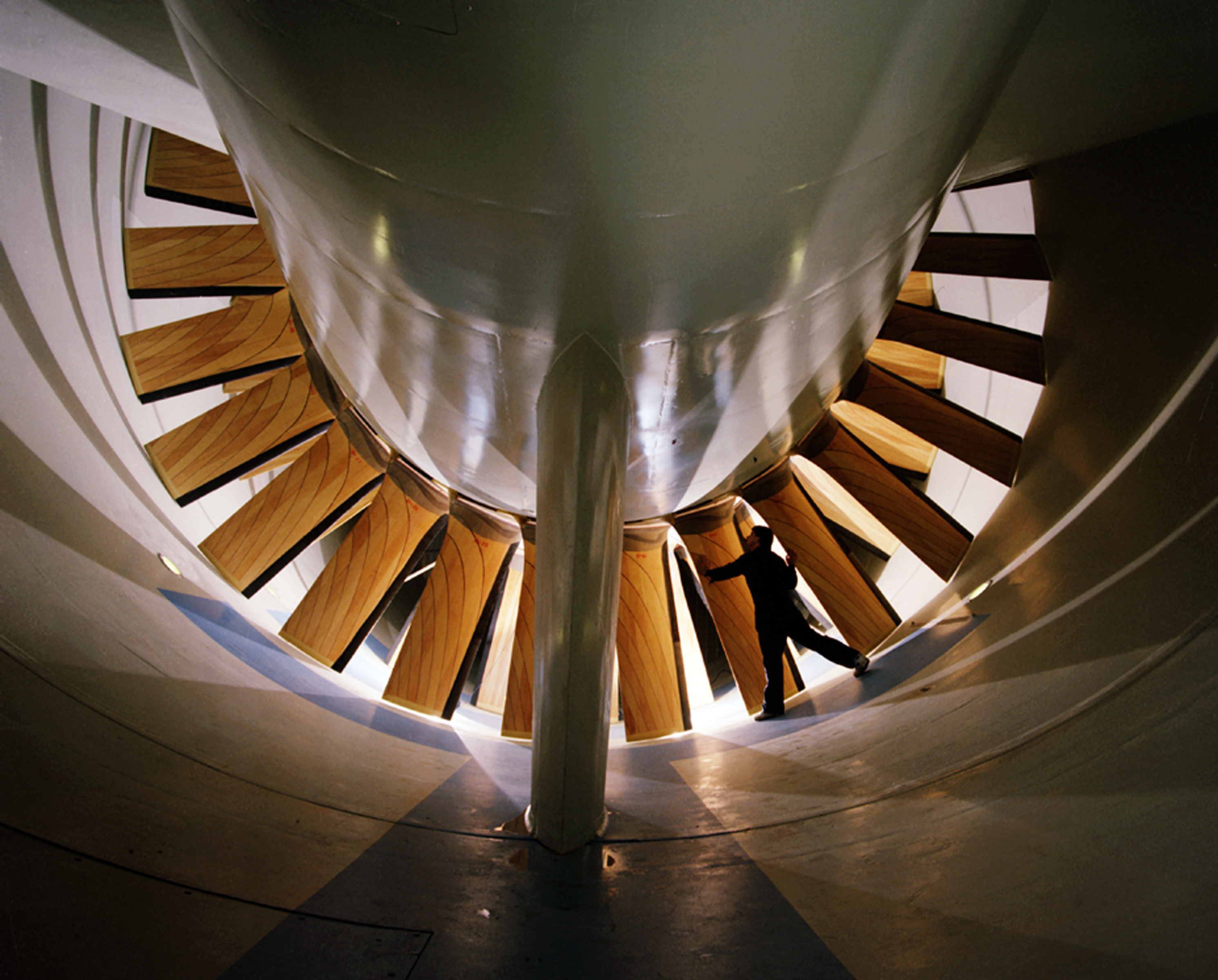 Transonic tunnel fan blades, with light reflections. Grady McCoy is shown standing next to the fan blades.